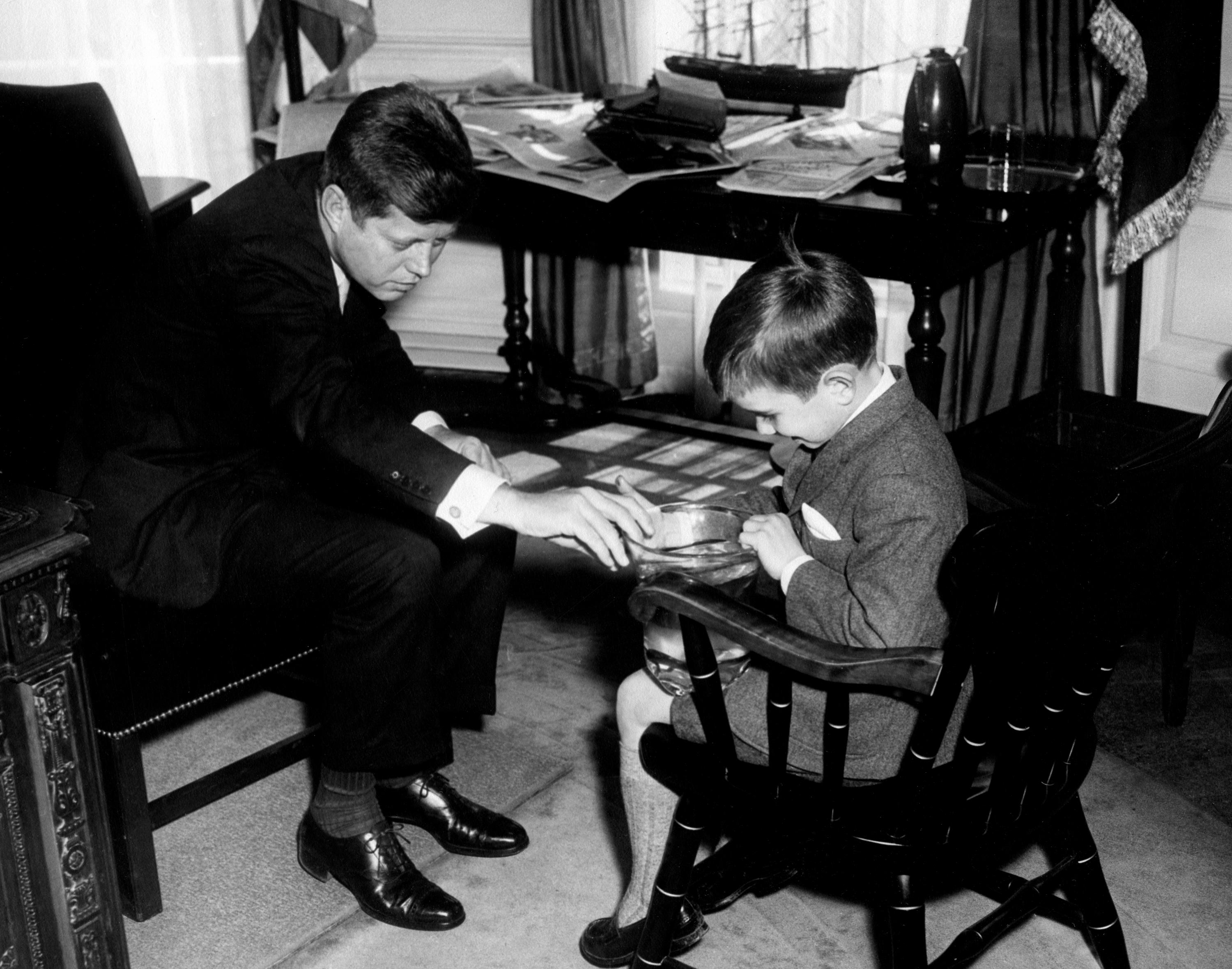 President John F. Kennedy visits with his nephew, Robert F. Kennedy, Jr.; RFK, Jr., presented his uncle with a salamander, "Shadrach." Oval Office, White House, Washington, D.C.